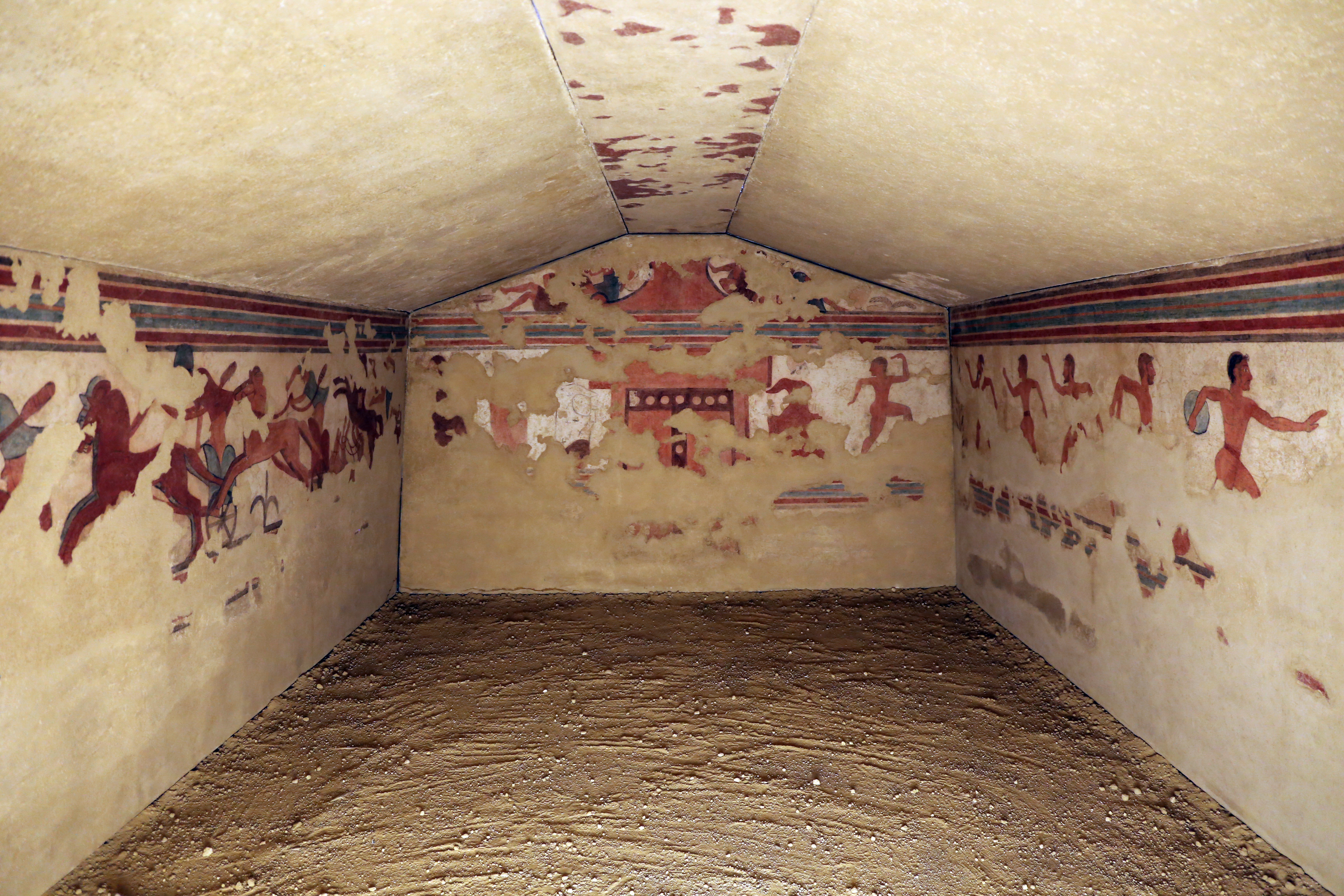 Etruscan antiquities the Museo archeologico nazionale (Tarquinia)